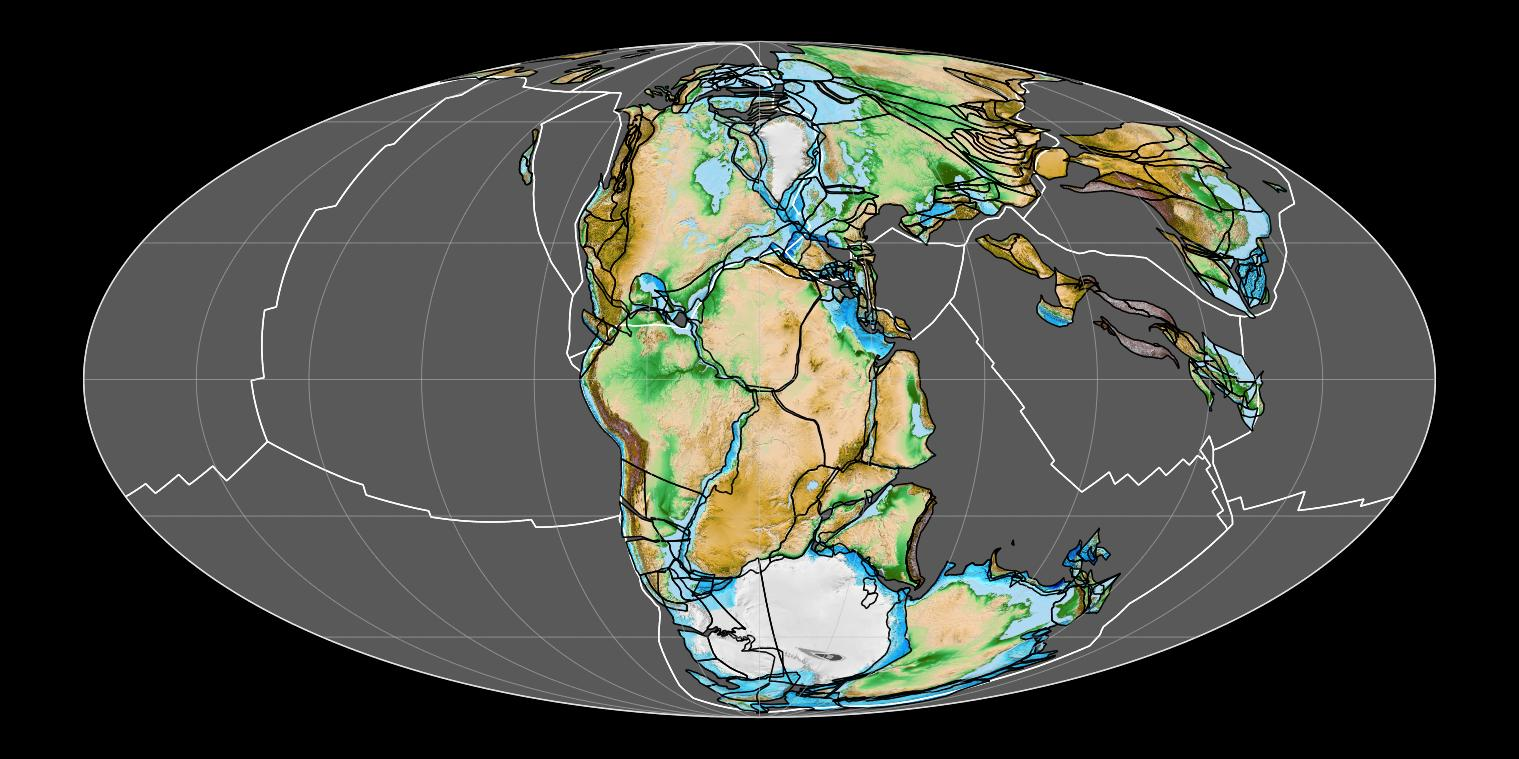 Map of Pangaea 200 million years ago. Mollweide projection centred on 0°,0°. Made using GPlates and data sets listed below:[1] Amante, C. and Eakins, B. W. 2009. ETOPO1 1 Arc-Minute Global Relief Model: Procedures, Data Sources and Analysis. NOAA Technical Memorandum NESDIS NGDC-24, 19. Matthews, K.J., Maloney, K.T., Zahirovic, S., Williams, S.E., Seton, M., and Müller, R.D. (2016). Global plate boundary evolution and kinematics since the late Paleozoic, Global and Planetary Change, 146, 226-250. Müller, R.D., Seton, M., Zahirovic, S., Williams, S.E., Matthews, K.J., Wright, N.M., Shephard, G.E., Maloney, K.T., Barnett-Moore, N., Hosseinpour, M., Bower, D.J. & Cannon, J. 2016. Ocean Basin Evolution and Global-Scale Plate Reorganization Events Since Pangea Breakup, Annual Review of Earth and Planetary Sciences, vol. 44, pp. 107 .